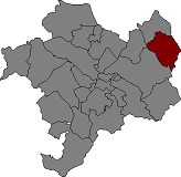 Location of Gelida in Alt Penedès